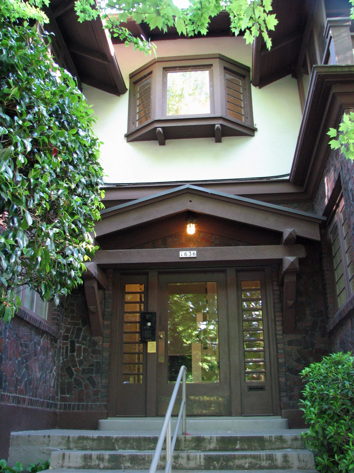 The historic F.E. Bowman Apartments (built 1913), located at 1624-1636 Northeast Tillamook Street in Portland, Oregon, United States, are listed on the US National Register of Historic Places.